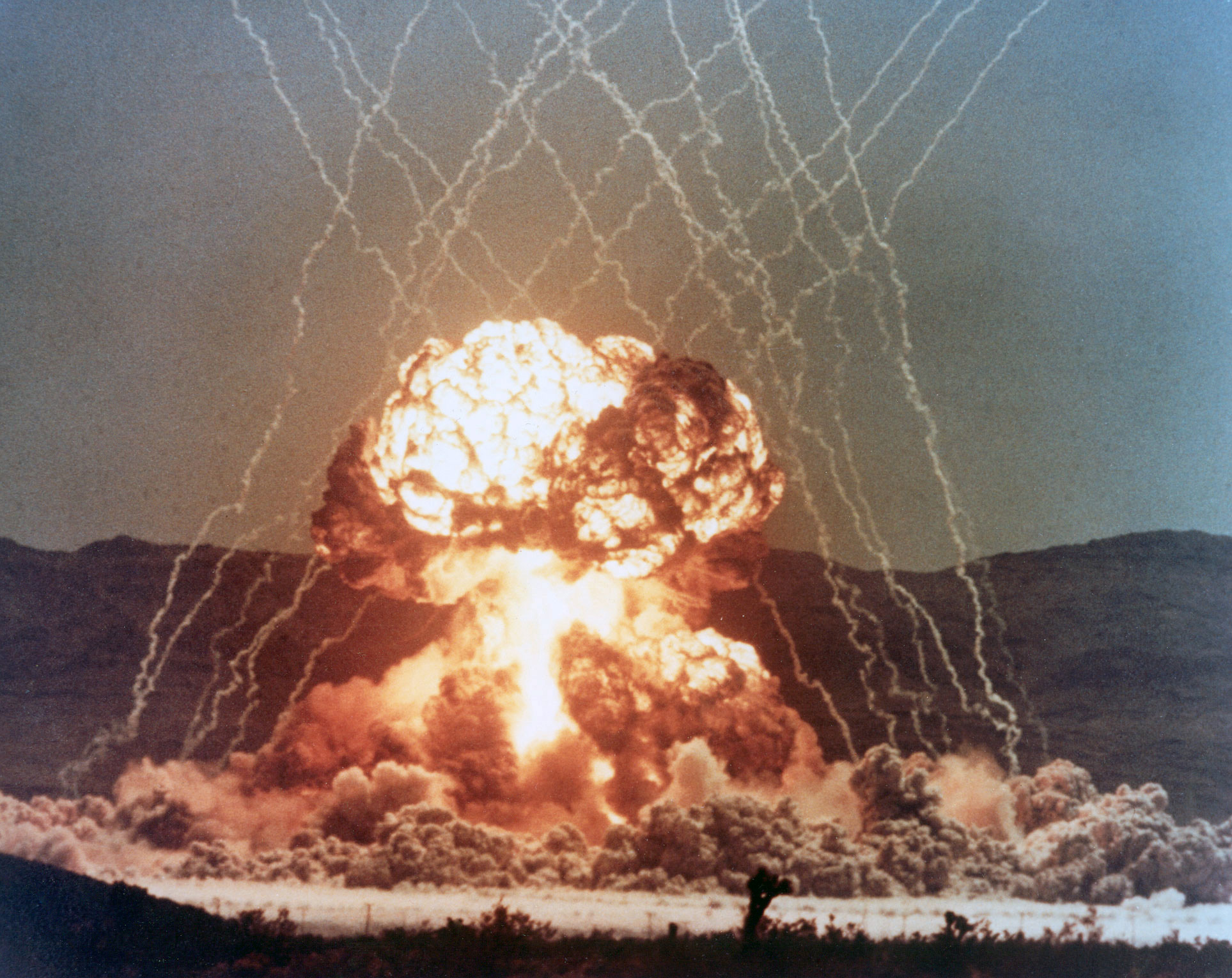 Operation Teapot, the Met Shot, a tower burst weapons effects test April 15, 1955 at the Nevada Test Site.